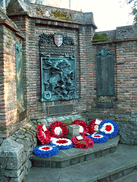 Wreaths on Sandwich War Memorial The memorial outside St. Peter's Church honours men who died in two world wars, Korea and The Falklands. It features a bronze of St. George and the dragon, designed by Omar Ramsden.